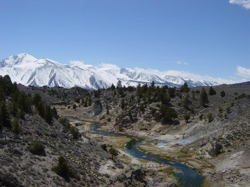 Hot Creek in Long Valley, California.